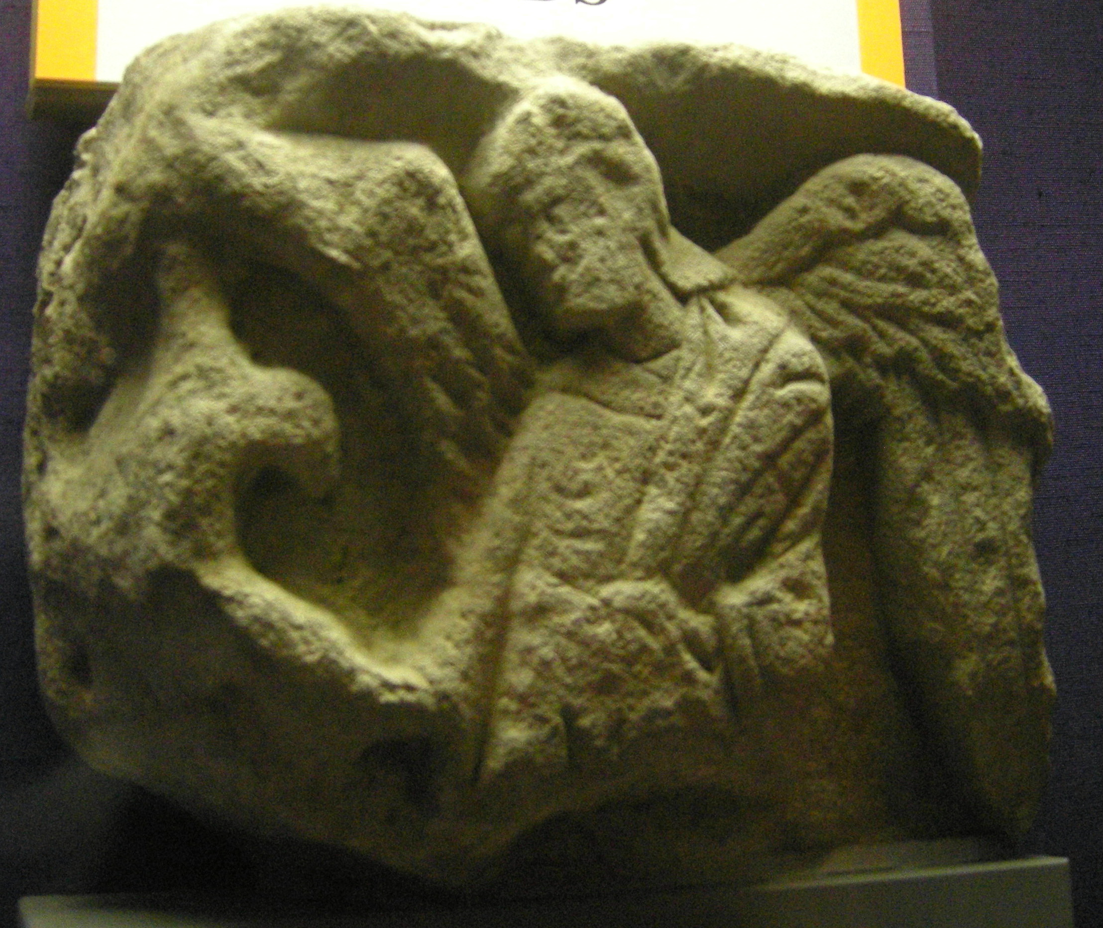 Anglo-Saxon stone carving at Herne Bay Museum and Gallery